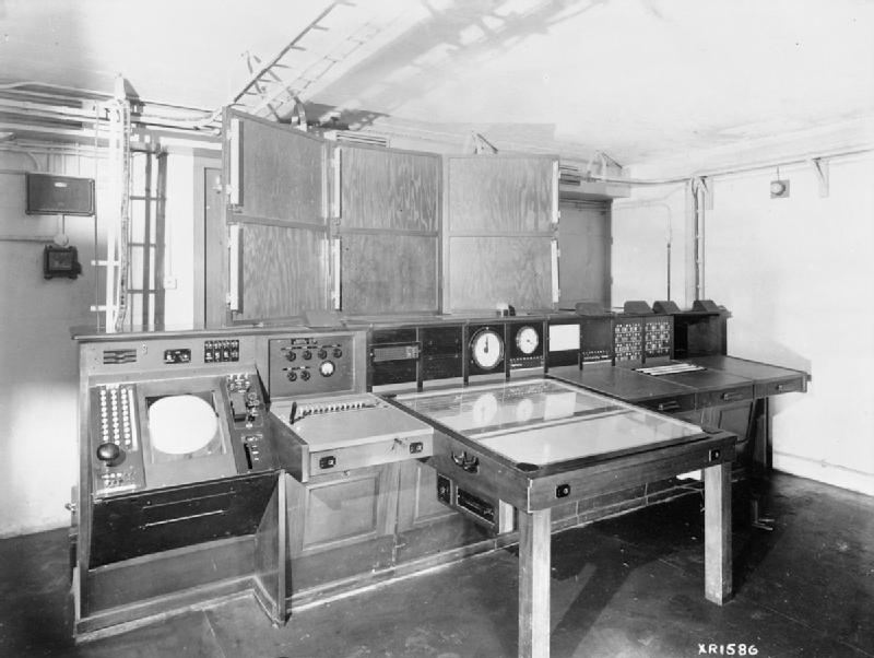 Royal Air Force Radar, 1939-1945. Chain Home: the Mark 3 Console as installed in a receiver room of an East Coast station. This example combines the radar display, on the left, with the rest of the plotting and recording system. The large glass-topped cabinet in the center contained a map and a rolling pointer (seen roughly centred in the table) that was driven automatically by an analog computer known as the "fruit machine". Operators could select one of the tracked targets and the system would drive the pointer to the proper location on the map, where its grid co-ordinates could be read directly. This information was then recorded by operators sitting at the tables to the right, who would repeat it by telephone up the reporting chain. The large wooden boards above the console were used to pin notes.